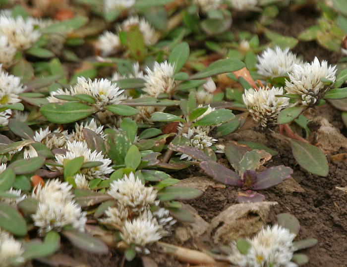 Khaki weed Alternanthera caracasana in Hyderabad , India.